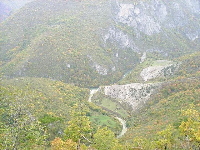 Rakitnica River and its valley, Bosnia and Herzegovina